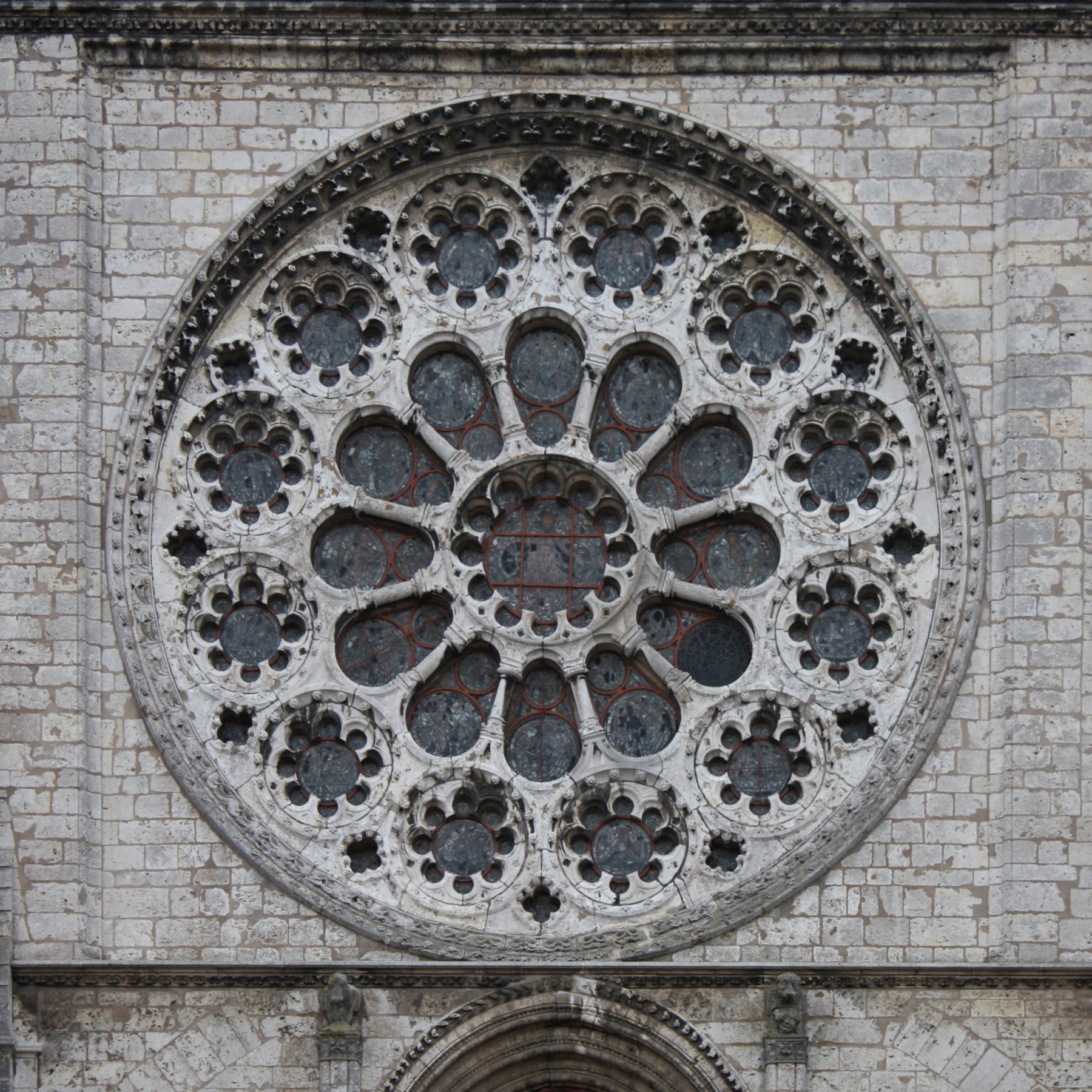 The western rose window of Chartres Cathedral.